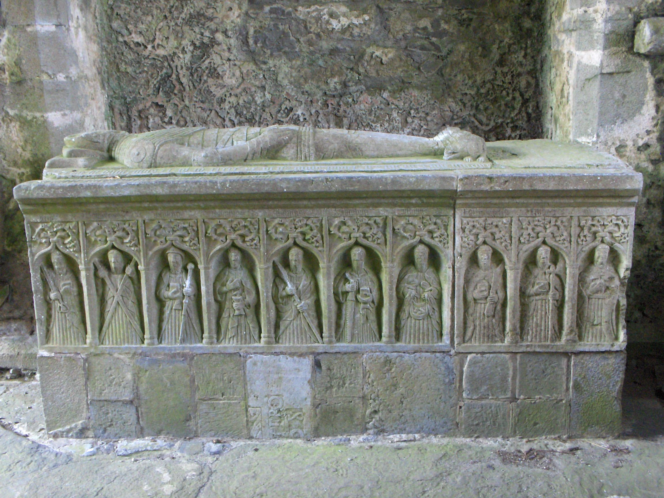 Kilcooly Abbey, knights tomb. Photo by William Bennett